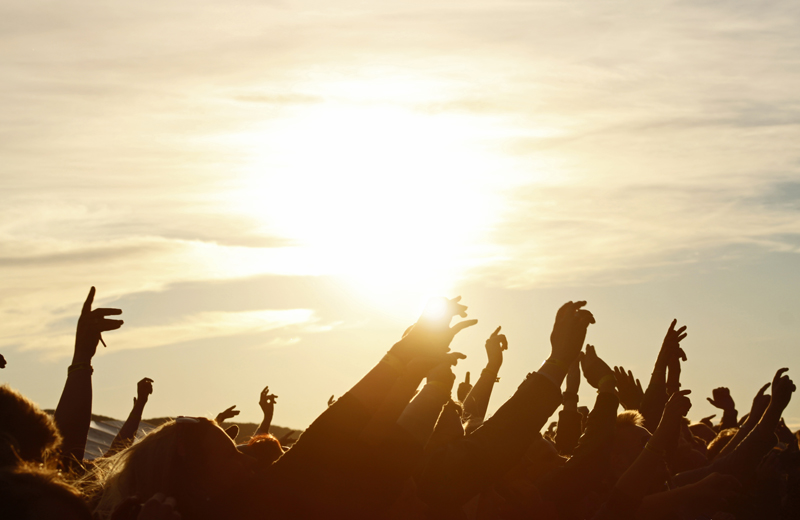 Bilde av publikum fra Midnattsrocken 2012